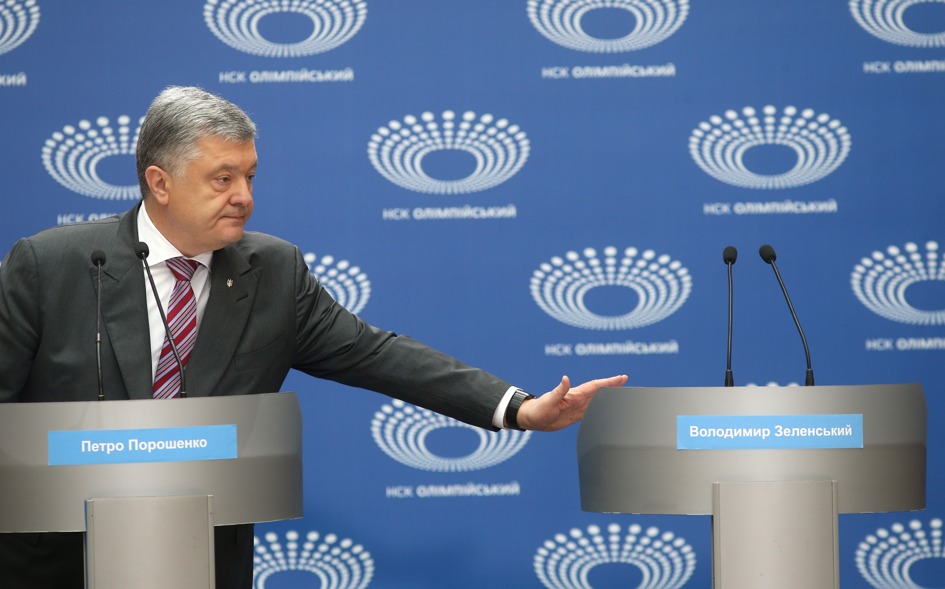 Poroshenko debates on Olimpiyskiy 14.04.2019